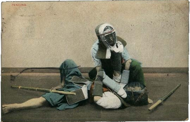 Two boys in kendo dress